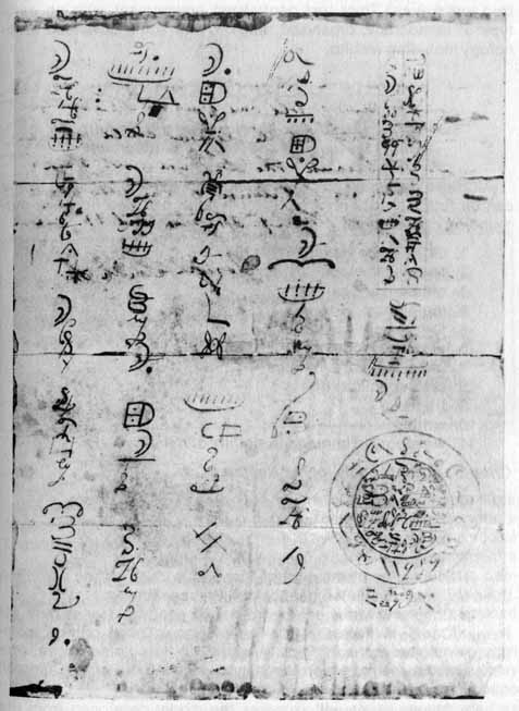 Photo of forged Reformed Egyptian document by Mark Hofmann, from LDS Church archives.